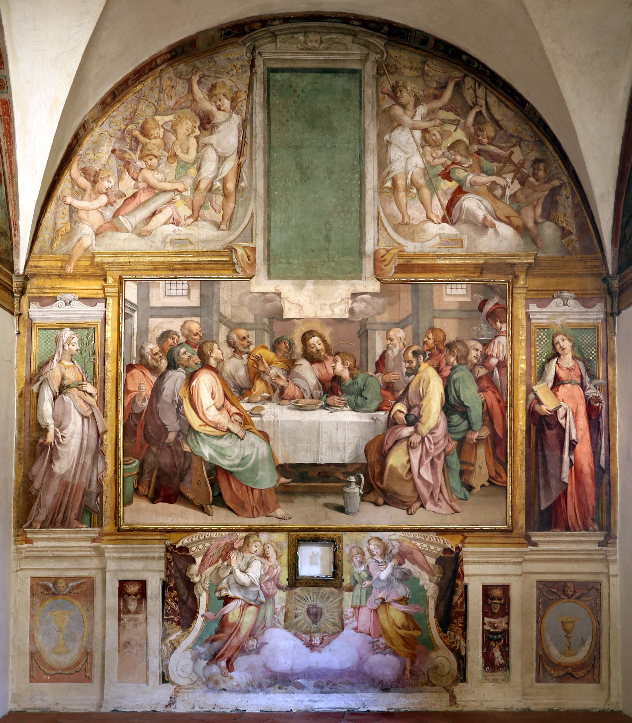 Frescos by Bernardino Poccetti in Sant'Apollonia (Florence)